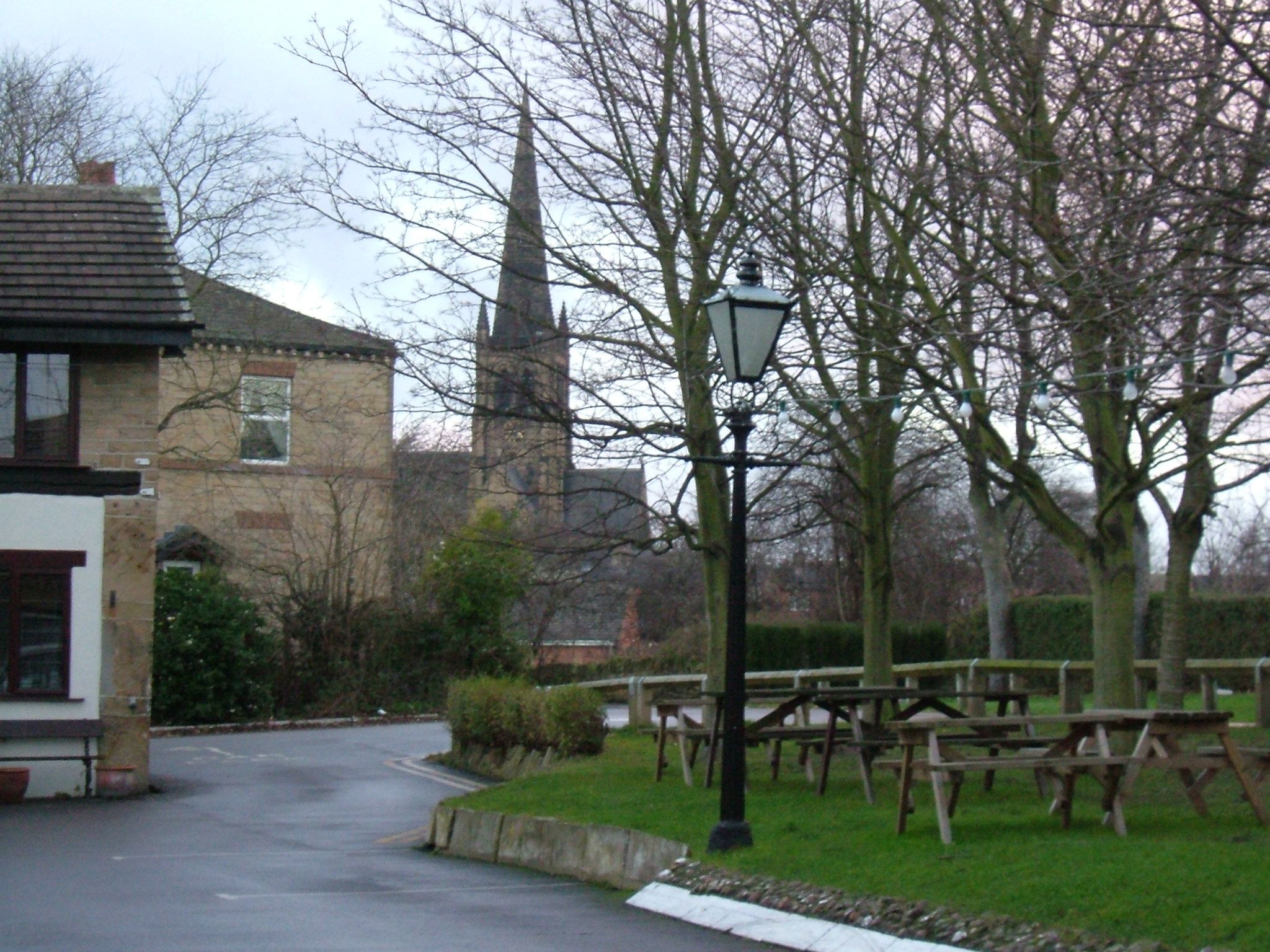 View from Dale Street, Ossett, West Yorkshire toward Holy Trinity parish church